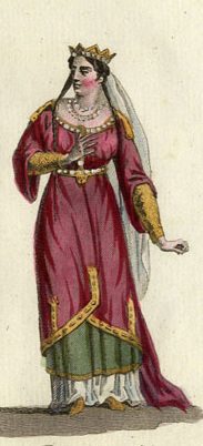 Translation of the french original caption : Top : 10th century Bottom : Blanche of Aquitaine [sic for Adelaide-Blanche of Anjou]